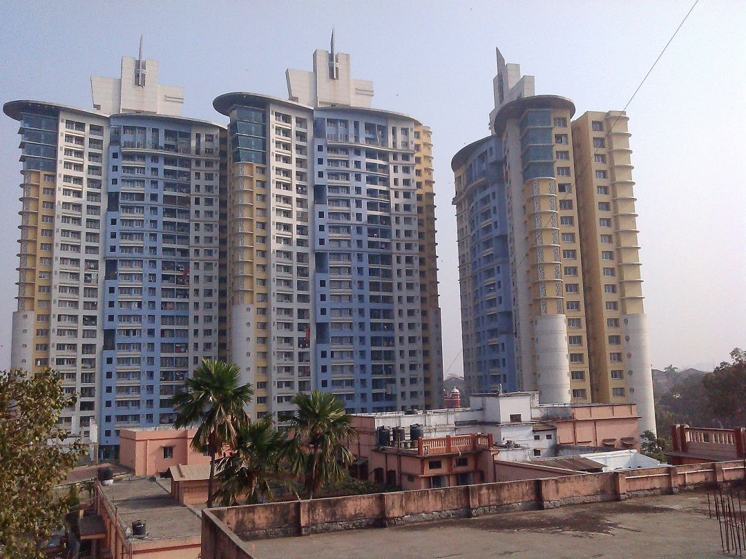 Ideal Heights is tallest building in Central Kolkata(23floor)